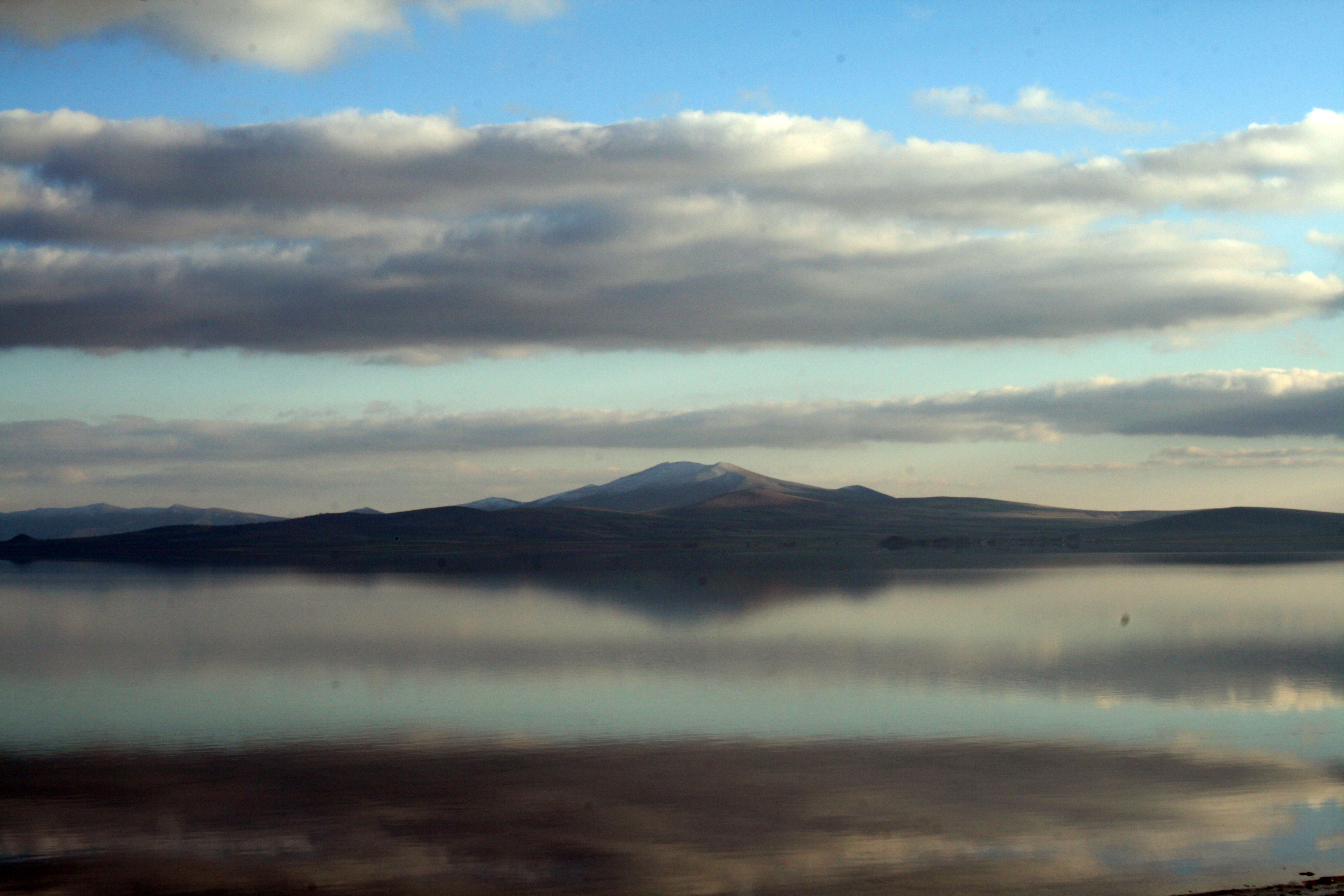 Reflections on Lake Seyfe